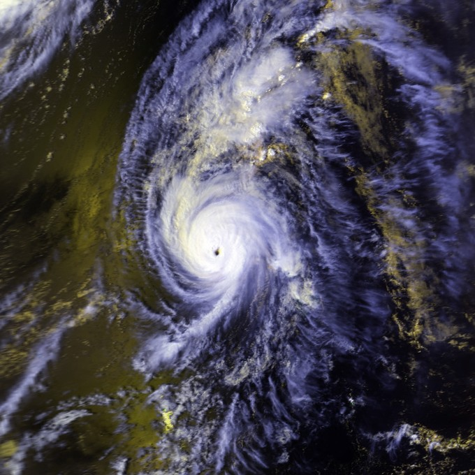 Hurricane Iniki at peak intensity on September 11 at 2358 UTC. This image was produced from data from NOAA-11, provided by NOAA.